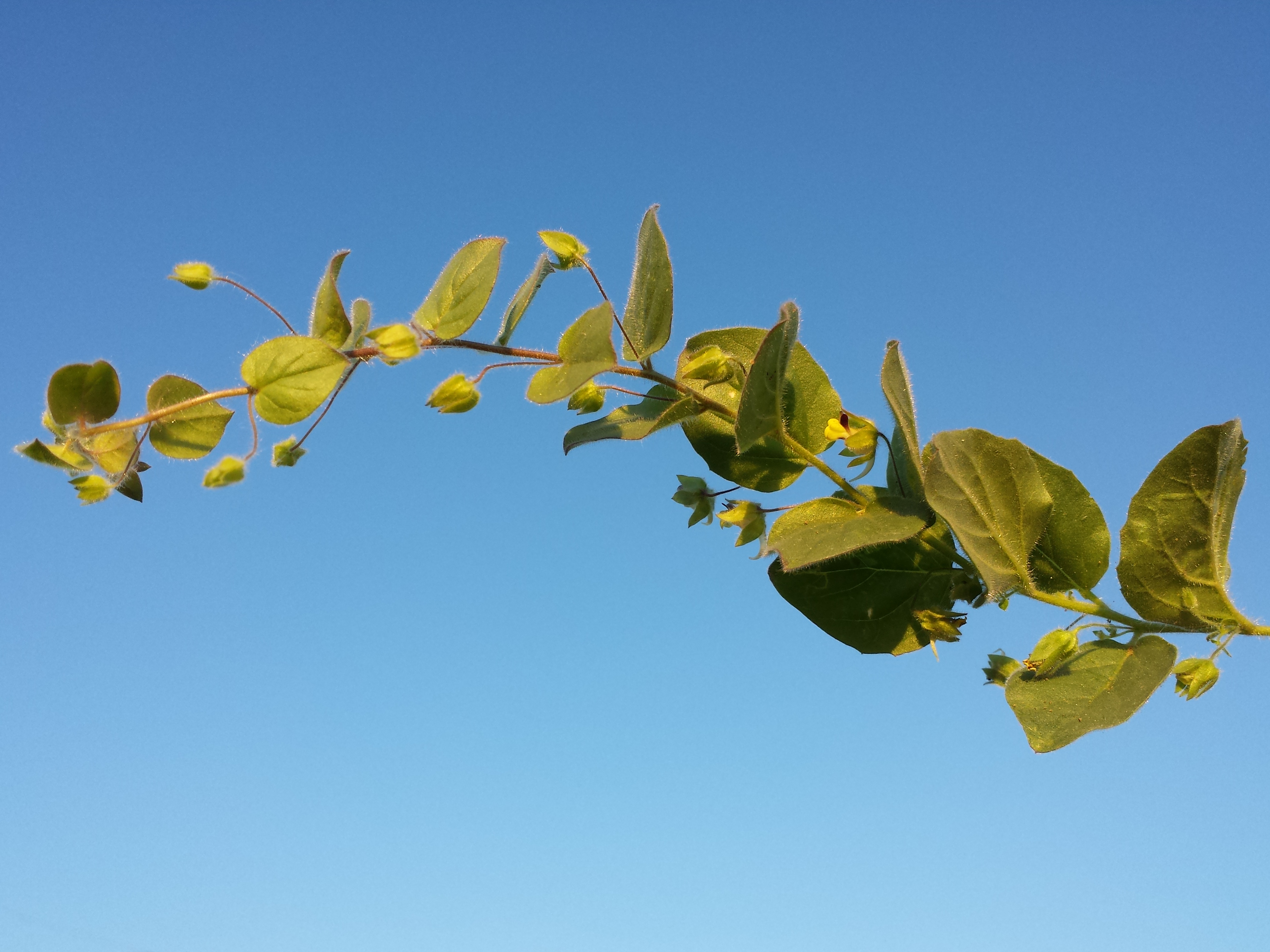 Stipe with leaves and flowers Taxonym: Kickxia spuria ss Fischer et al. EfÖLS 2008 ISBN 978-3-85474-187-9 Location: Steinberg near Niederhollabrunn, district Korneuburg, Lower Austria - ca. 375 m a.s.l. Habitat: field